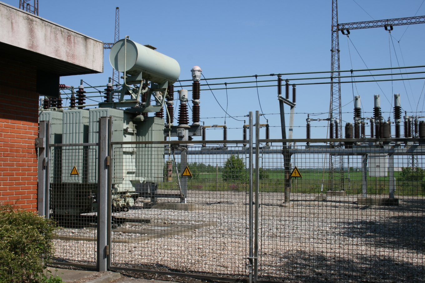 60/10 kV transformer servicing a minor, Danish community.